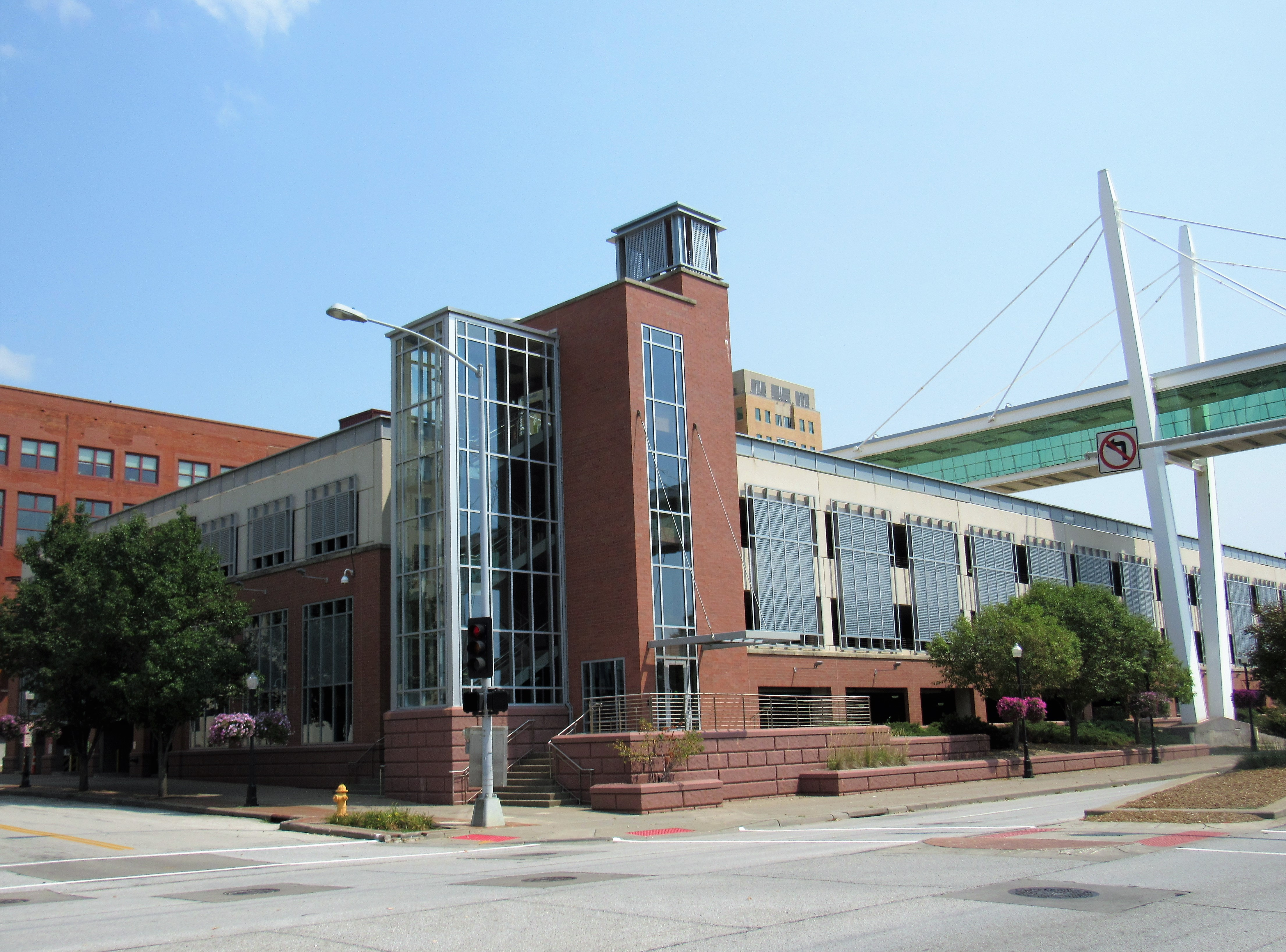 The parking ramp at Main Street and River Drive in Davenport, Iowa. It replaced several buildings that were listed on the National Register of Historic Places.